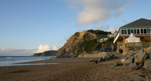 Photo by me, fair use